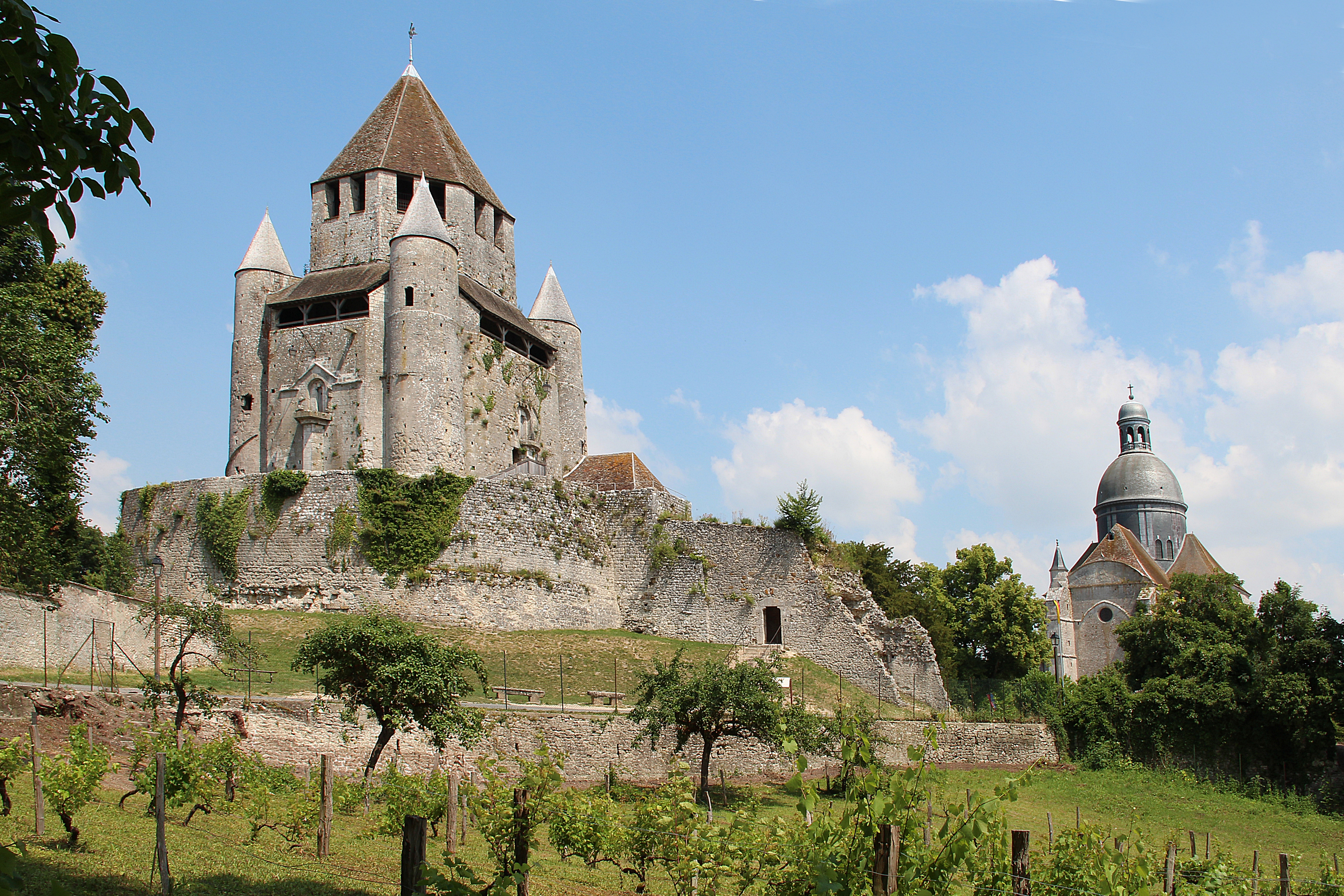 Provins (Île-de-France), the collegiate Church of Saint-Quiriace (12th century) and the César Tower (12th century), seen from the upper gallery of the César tower.